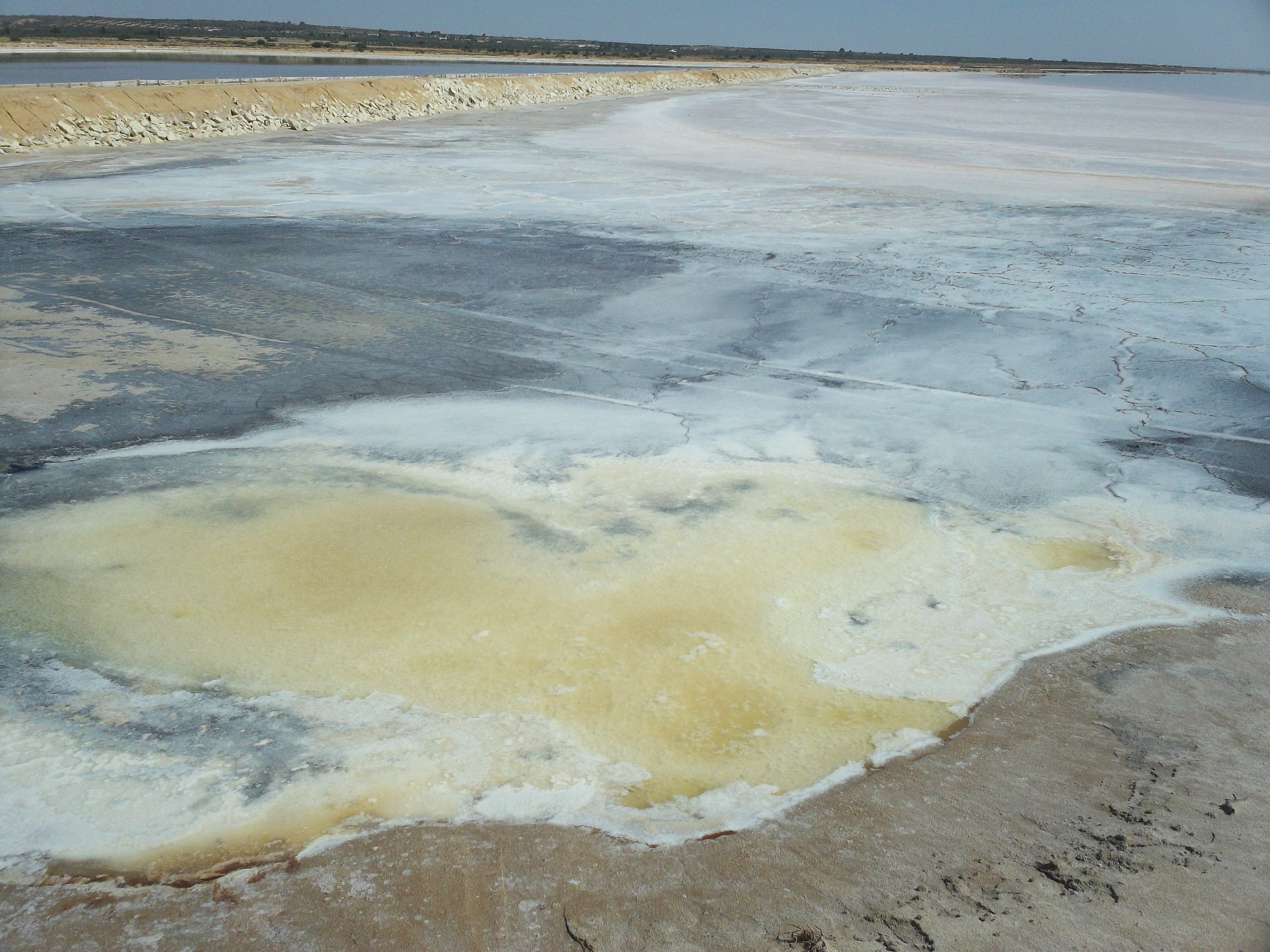 This spot of the lake displays different colours probably due to a reaction between salt and other matters.